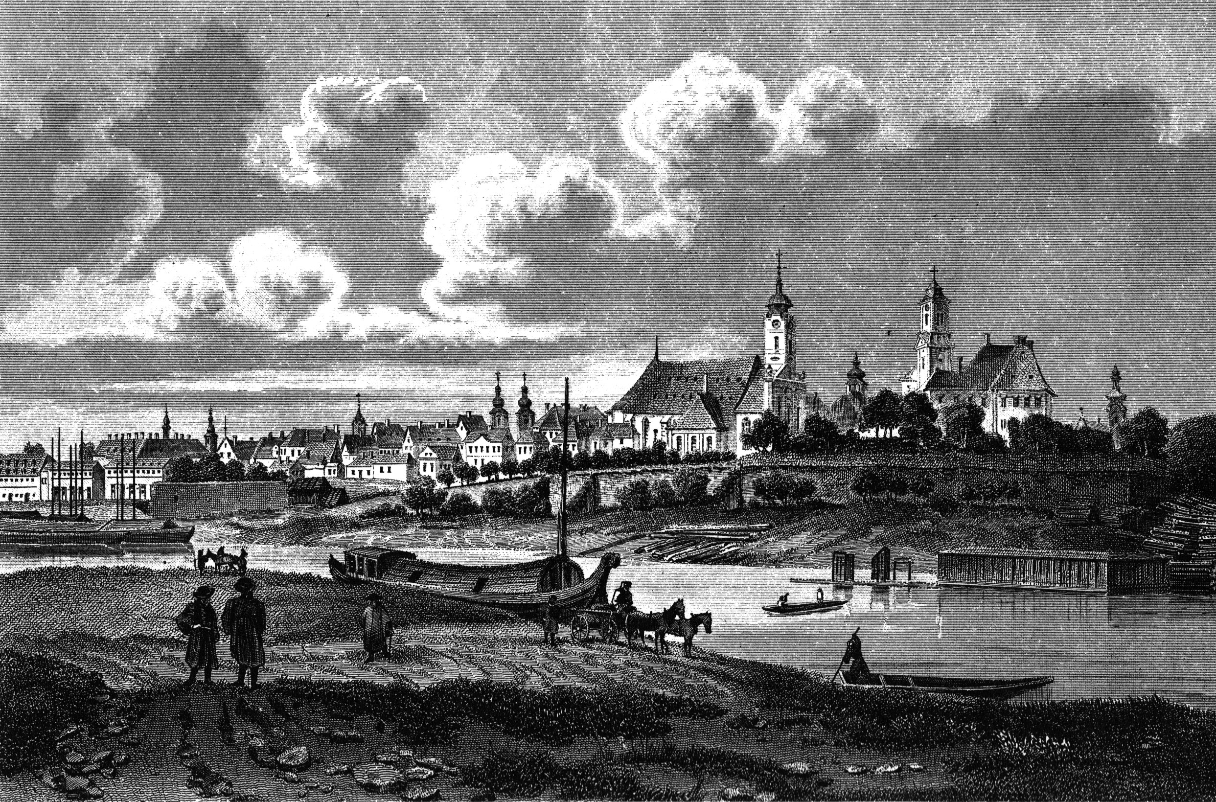 Boats at Gyor in Hungary around 1845. Drawing by L. Rohbock, engraving by F. Foltz